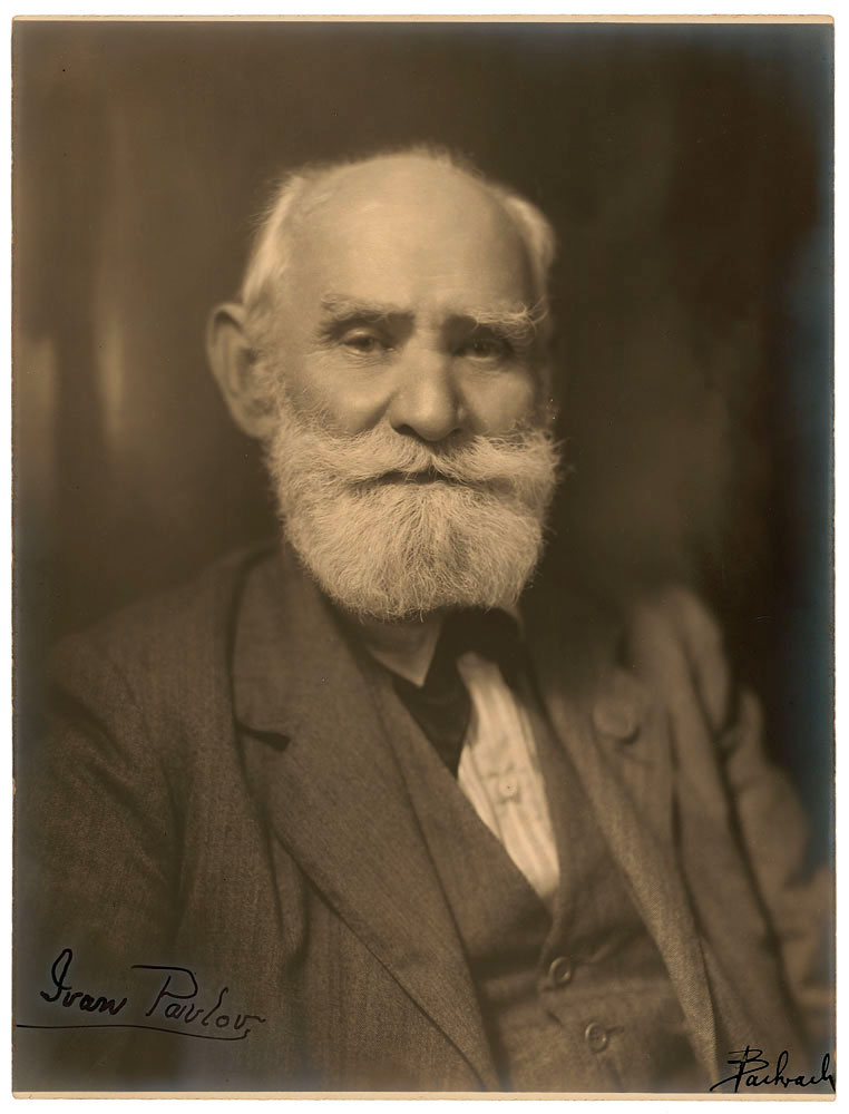 Inscribed photograph of Ivan Pavlov